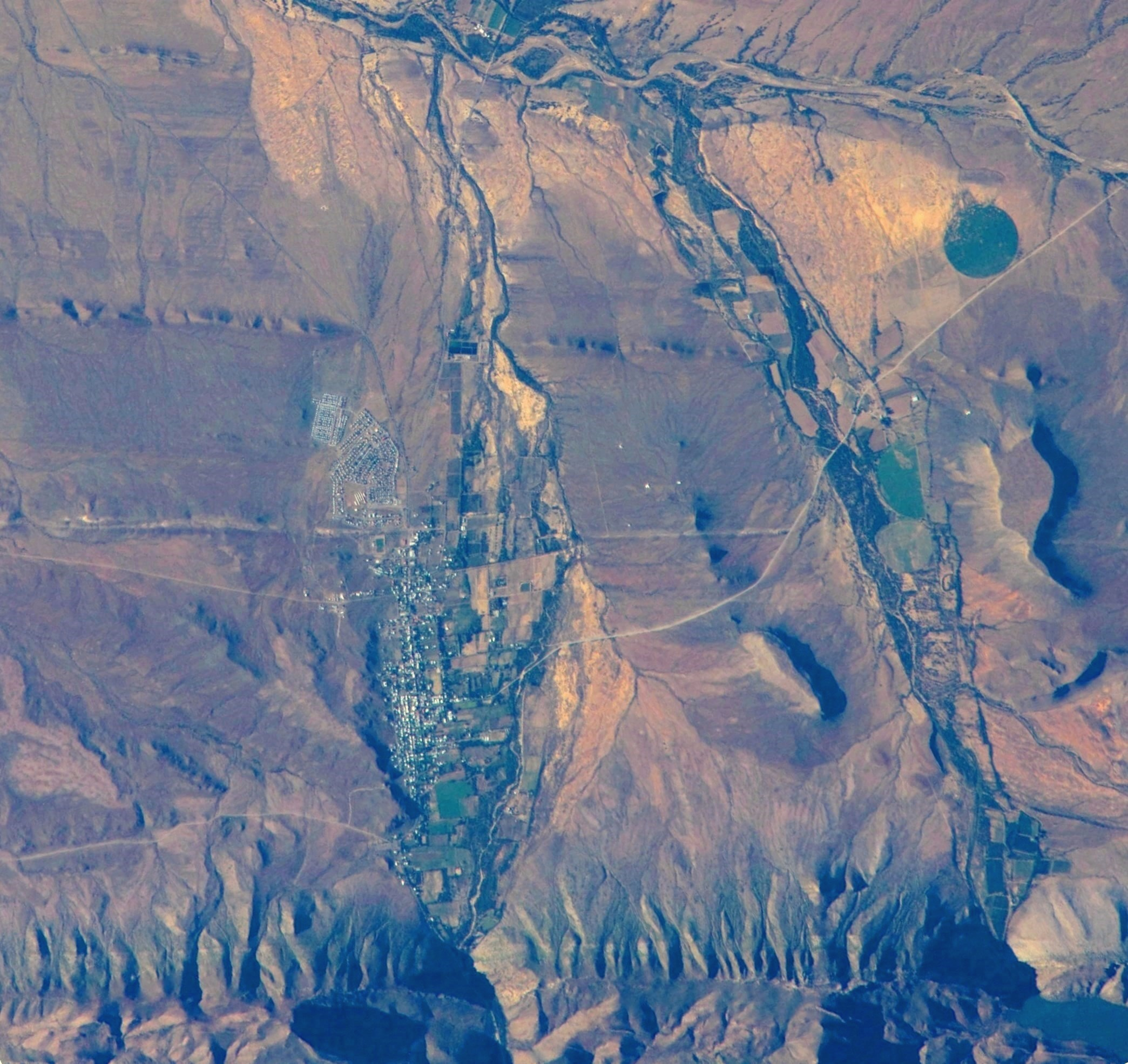 Prince Albert, South Africa is featured in this image photographed by an Expedition 38 crew member on the International Space Station. The Oukloof Mountains are visible at the bottom of the picture, and the dry course of the Sand River above. At right the Cordiers River leaves the Oukloof Reservoir in the uplands, and traverses a plain.